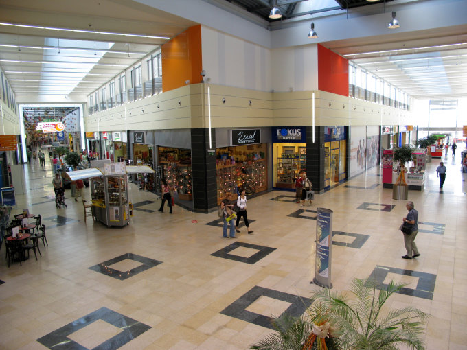 Nakupni centrum Gecko Liberec - interior